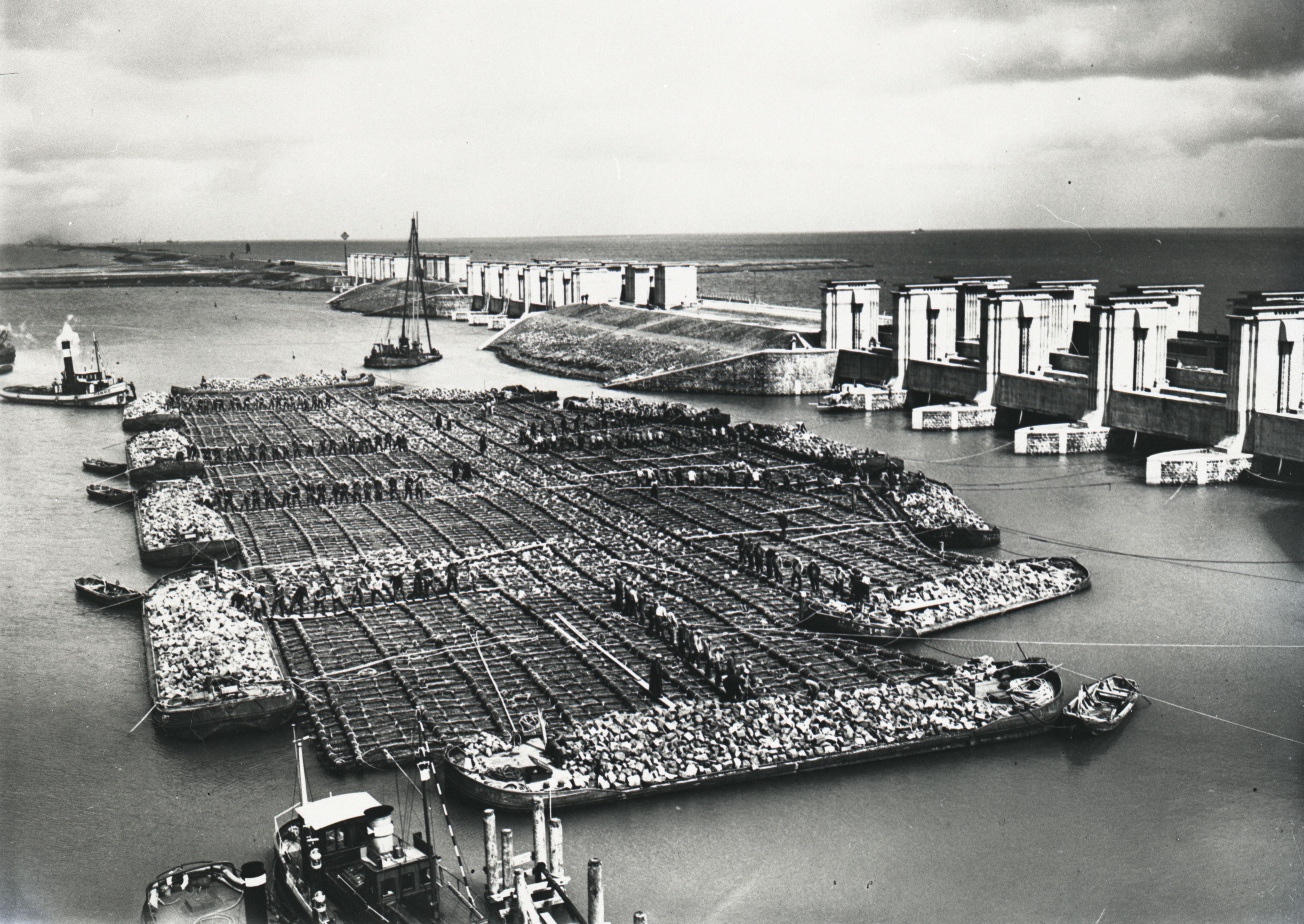 Sinking procedure with manual labour. The trick is to stop and get alls staff off the mattress when it starts sinking